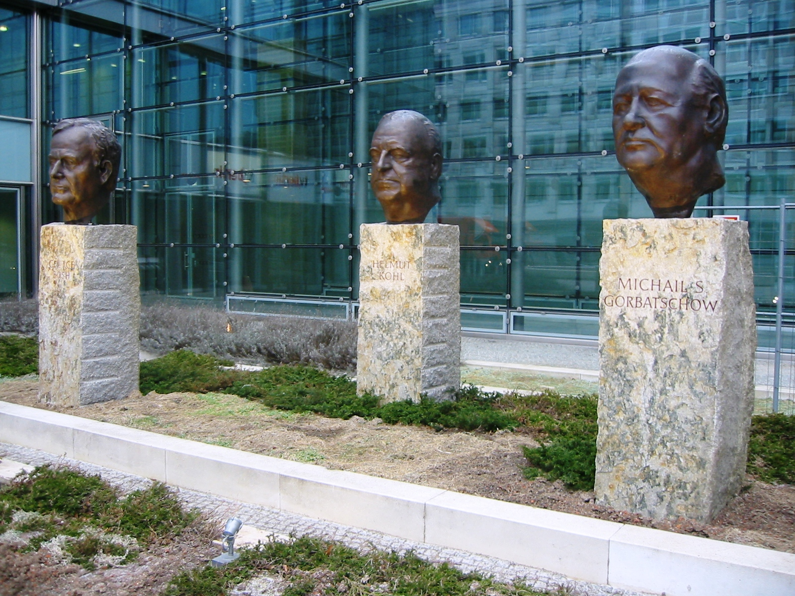 Memorial "Väter der Einheit" ("Fathers of Unity") in front of the Axel-Springer-Building in Berlin-Kreuzberg; a work of French sculptor Serge Mangin.